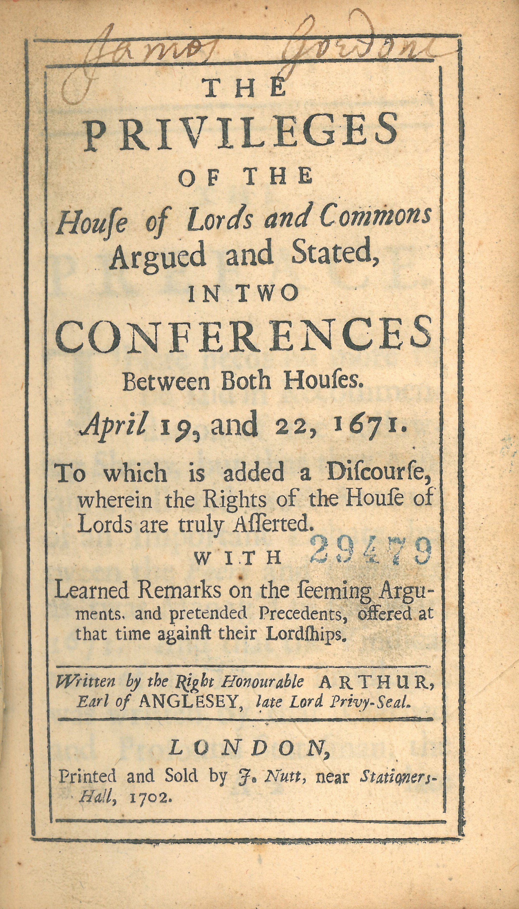 Title page of Arthur Annesley, 1st Earl of Anglesey (1702) The Privileges of the House of Lords and Commons Argued and Stated, in Two Conferences between both Houses. April 19, and 22, 1671. To which is Added a Discourse, wherein the Rights of the House of Lords are Truly Asserted. With Learned Remarks on the Seeming Arguments, and Pretended Precedents, Offered at that Time against their Lordships. Written by the Right Honourable Arthur, Earl of Anglesey, late Lord Privy-Seal, London: Printed and sold by J. Nutt, near Stationers-Hall OCLC: 642442297. This copy of the book was previously owned by the Cincinnati Law Library.